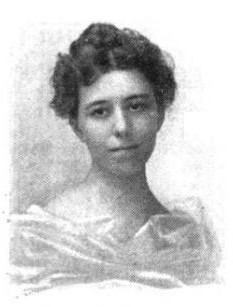 Picture Alice Caldwell Hegan Rice, the writer